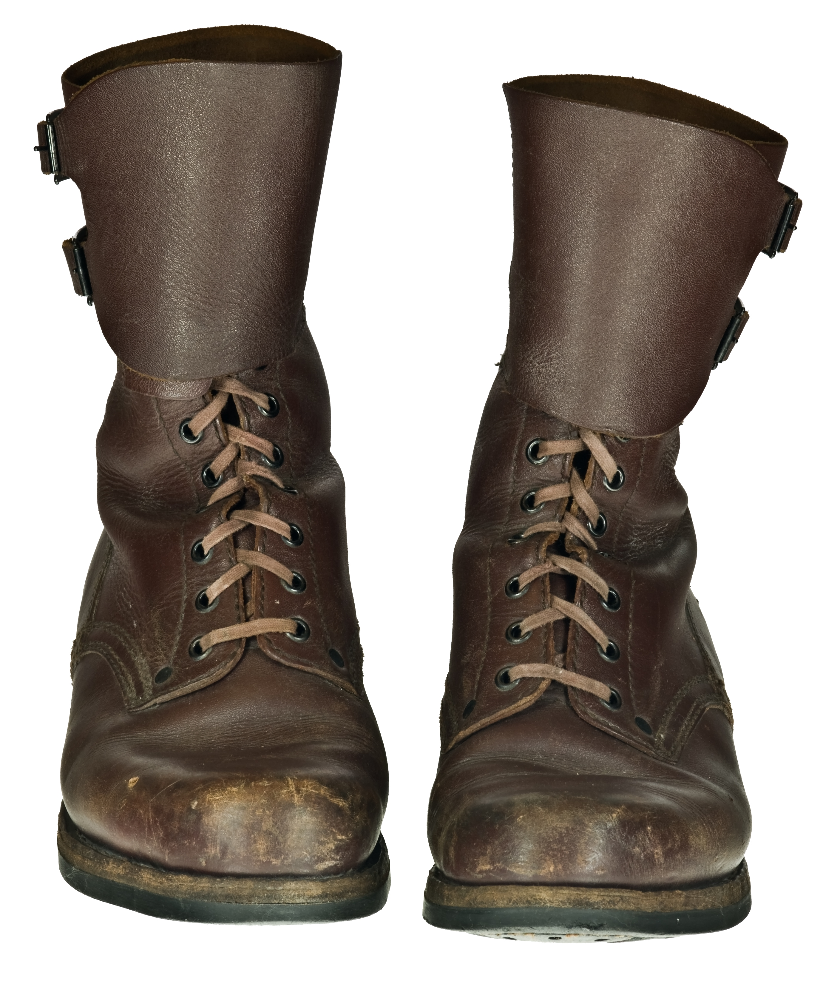 Combat boots used in Polish Army up to the 90'ties of the 20th century.